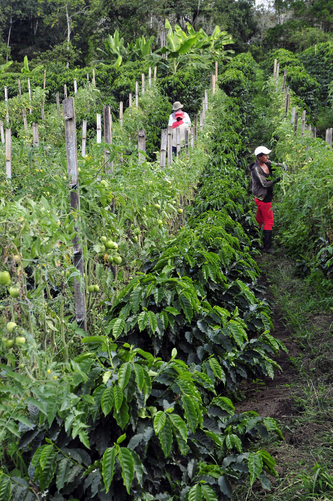 Coffee intercropped with tomato in Darién, Colombia